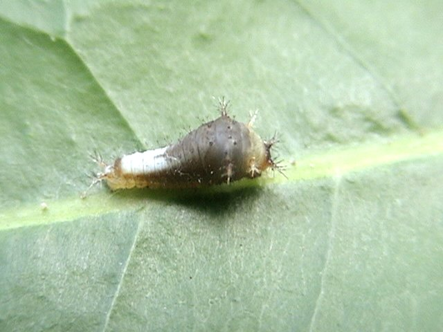 Tailed Jay (Graphium agamemnon) caterpillar in 2nd instar